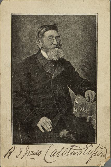 Photo of Robert Isaac Jones (1813 - 1905) Welsh writer and pharmacist. Obtained on the twitter of the Dictionary of Welsh Biography.